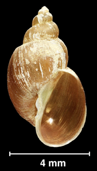 Photo of apertural view of a shell of Galba schirazensis. Specimen with the height of the shell 7.10 mm, from Albufera of Valencia, Valencia province, Spain.